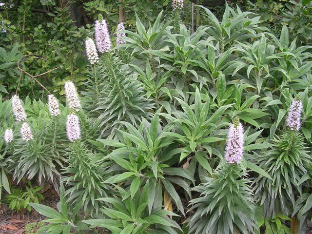 A work released per the GNU Free Documentation License by : FRANCISCA JIMENEZ ( Gran Canaria ) Spain.